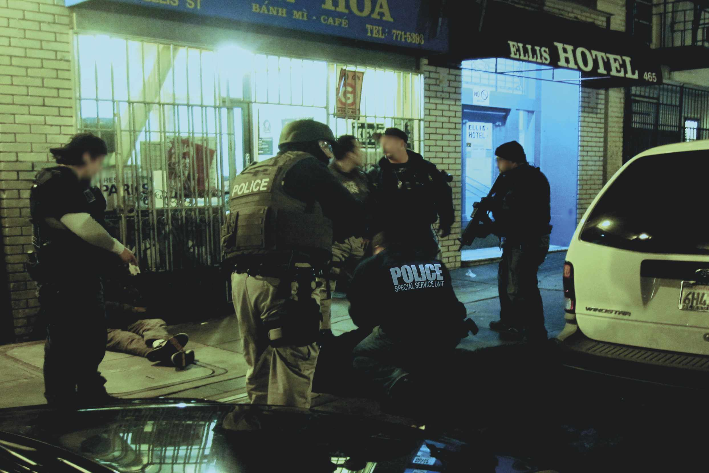 special agents making an arrest